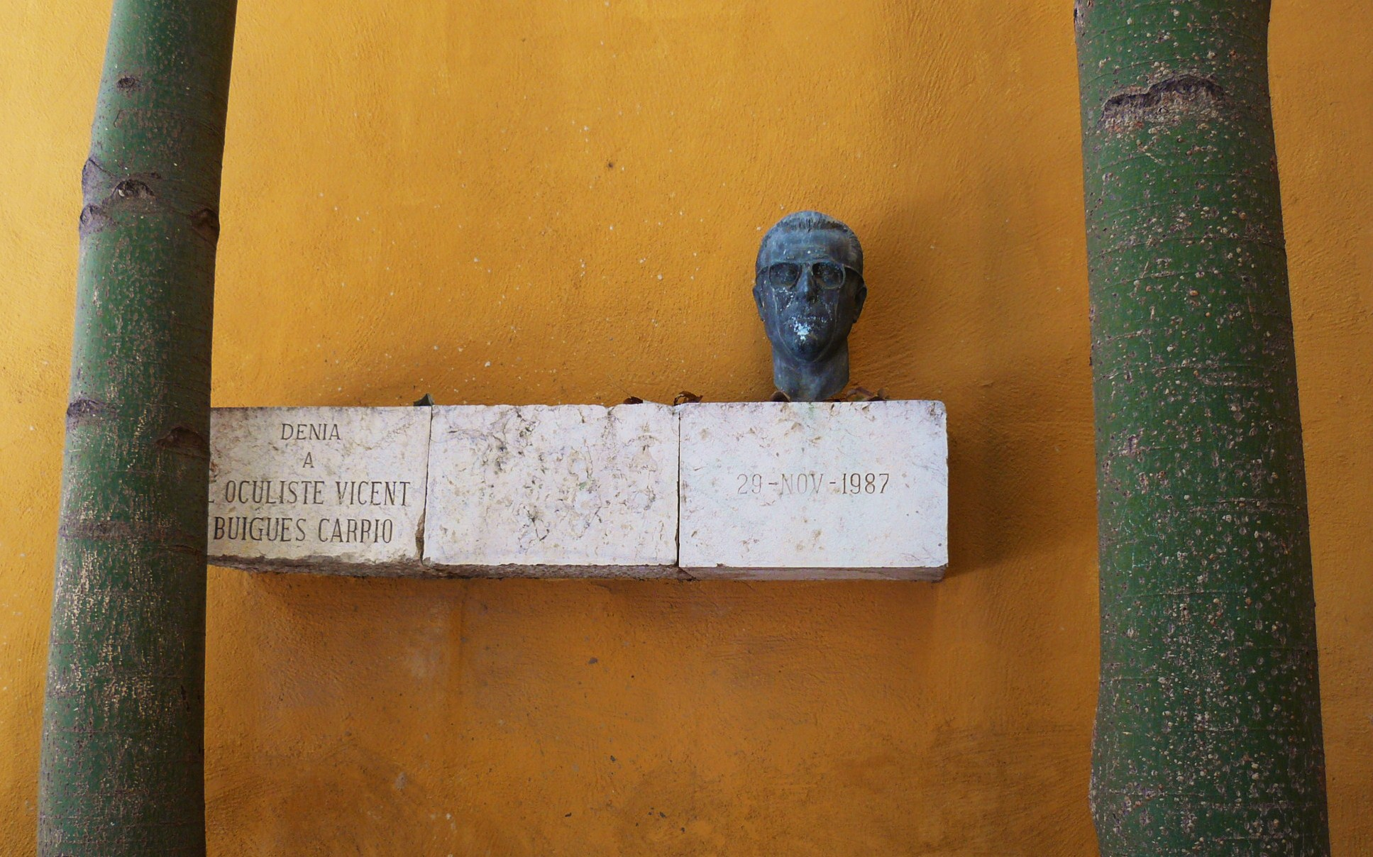 Monument of Vicente Buigues Carrió in Denia, Espania, Spain.